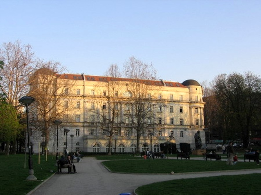 King Alexander Dormitorz in Belgrade